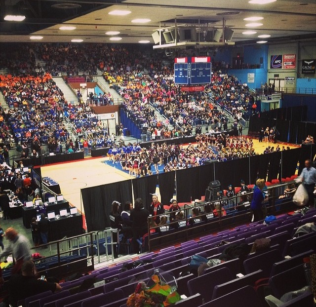 A photo taken at the State Cheering Competition during Awards ceremony for Class A and D